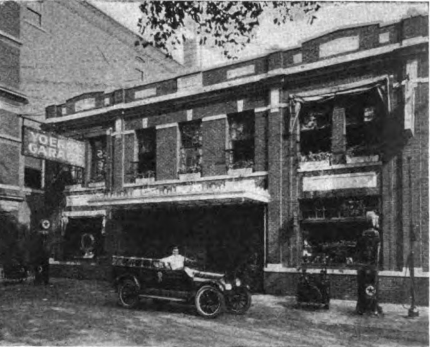 Future mayor and public housing administrator William P. Yoerg sits in a car in from of his shop in Holyoke, Massachusetts. Yoerg's building, 158 Chestnut Street, still stands today, expanded with more garage space. This building would remain a garage throughout the 20th century after he had sold the business. Yoerg first built this business by marketing the phrase "Call Yoerg, 804" in the days when phone numbers were substantially shorter. Building upon this reputation he served as mayor and one of the founding administrators of the Holyoke Housing Authority in the late 1930s.